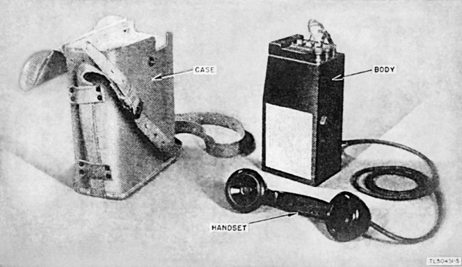 EE-8 field telephone